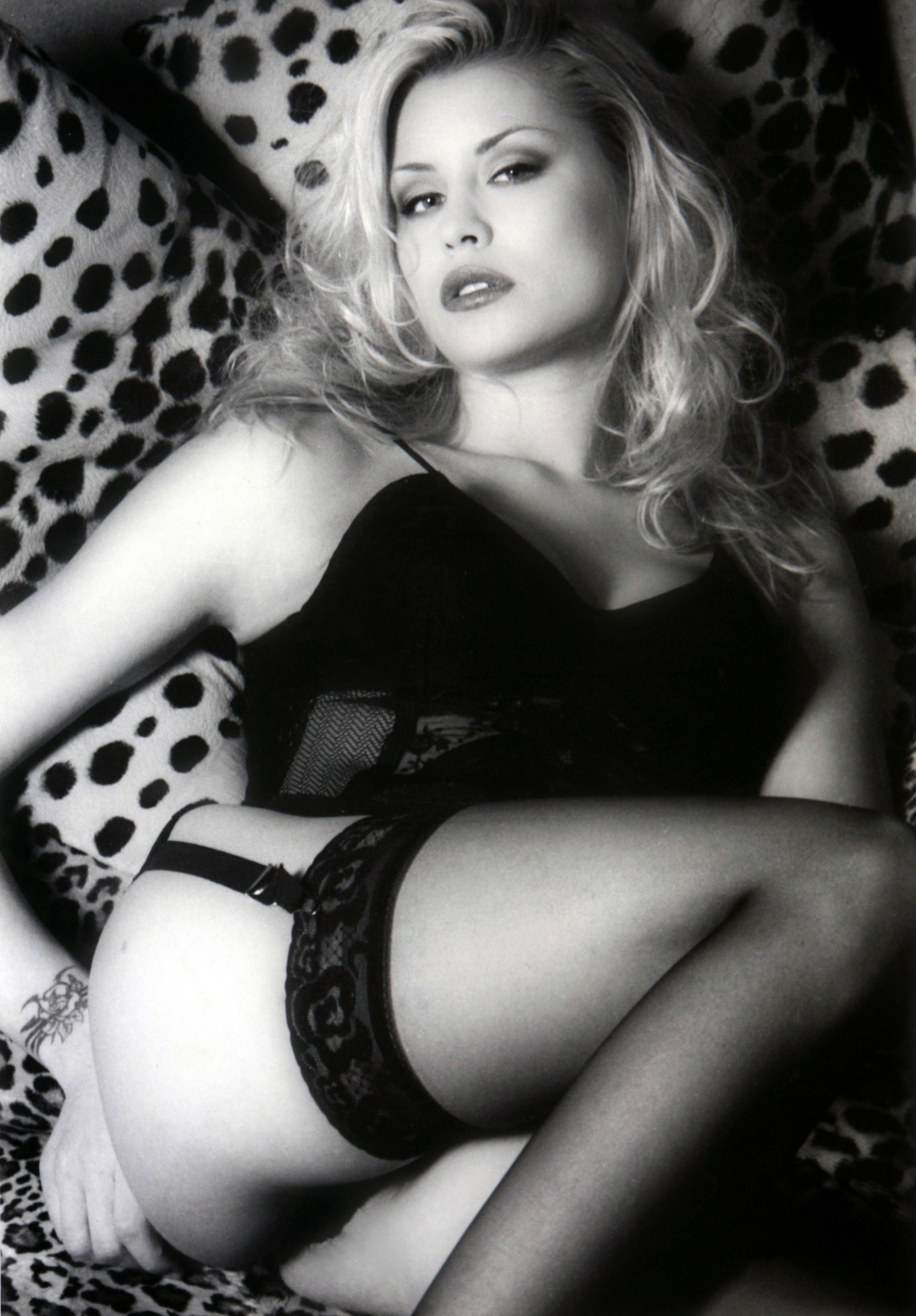 The Italian showgirl Elenoire Casalegno photographed for the November 1997 issue of Penthouse Italia by Alberto Magliozzi